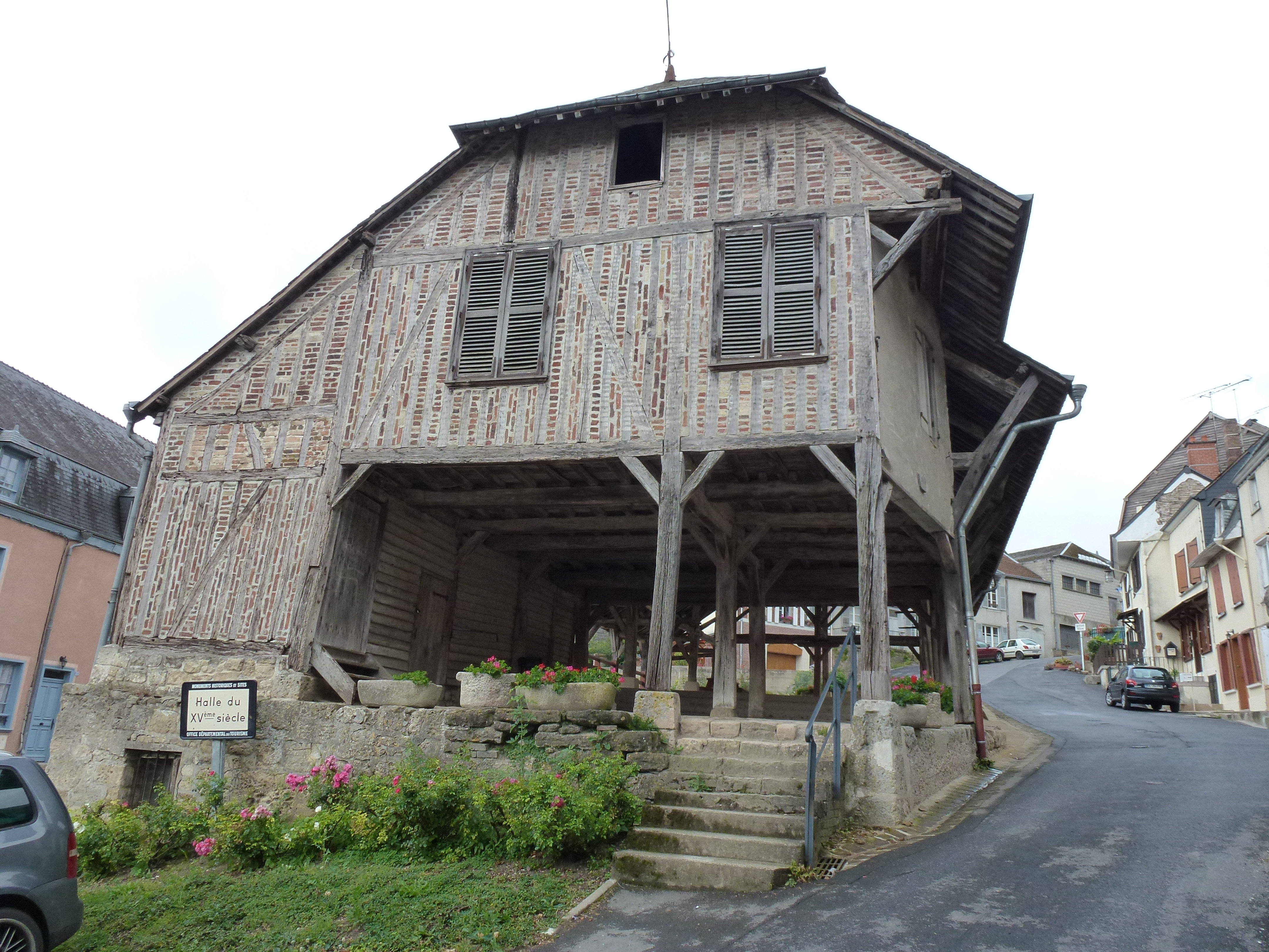 Wasigny (Ardennes) Halle